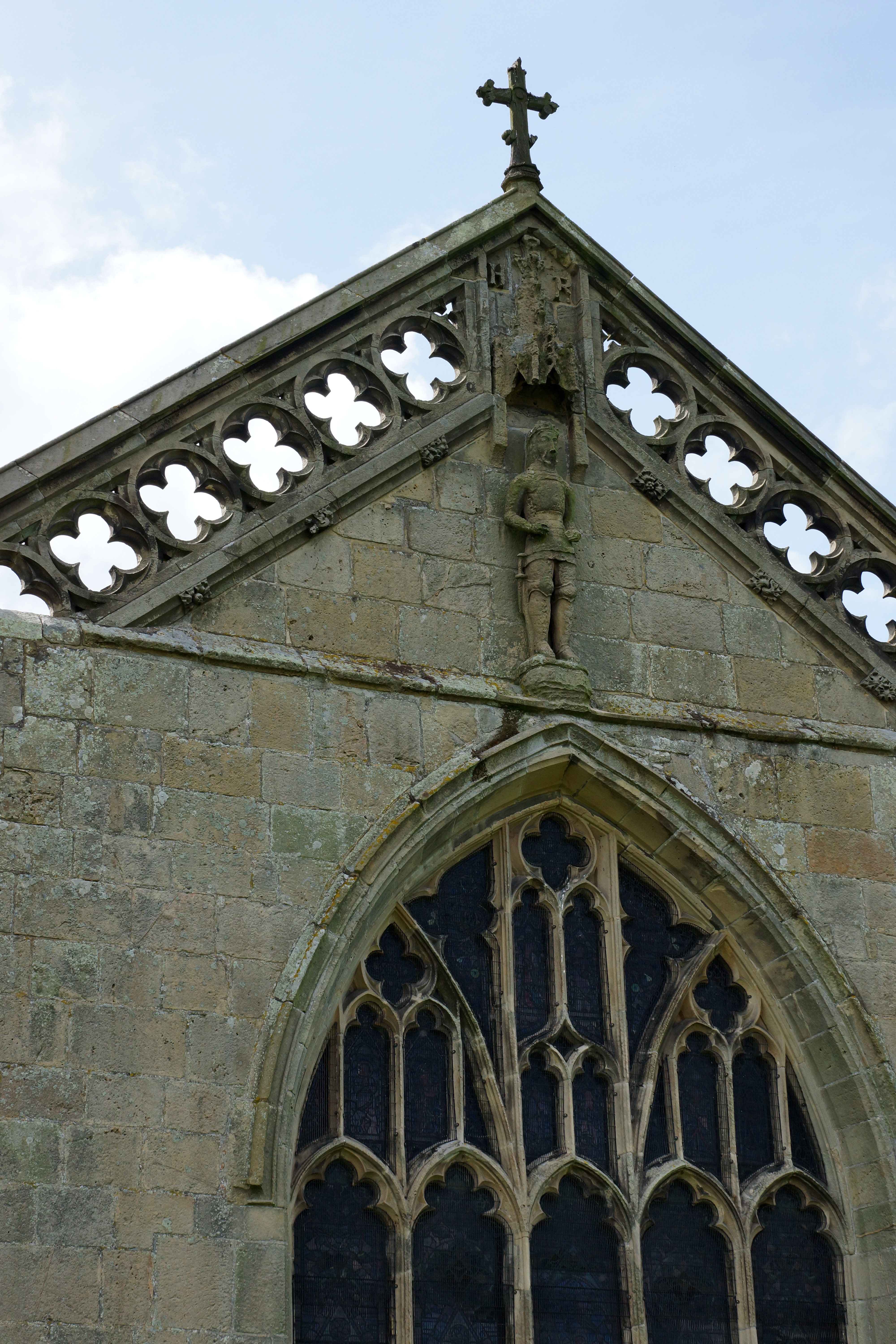 Statue of King Henry IV above the east window of St Mary Magdalene's Church, Battlefield, Shropshire, England.